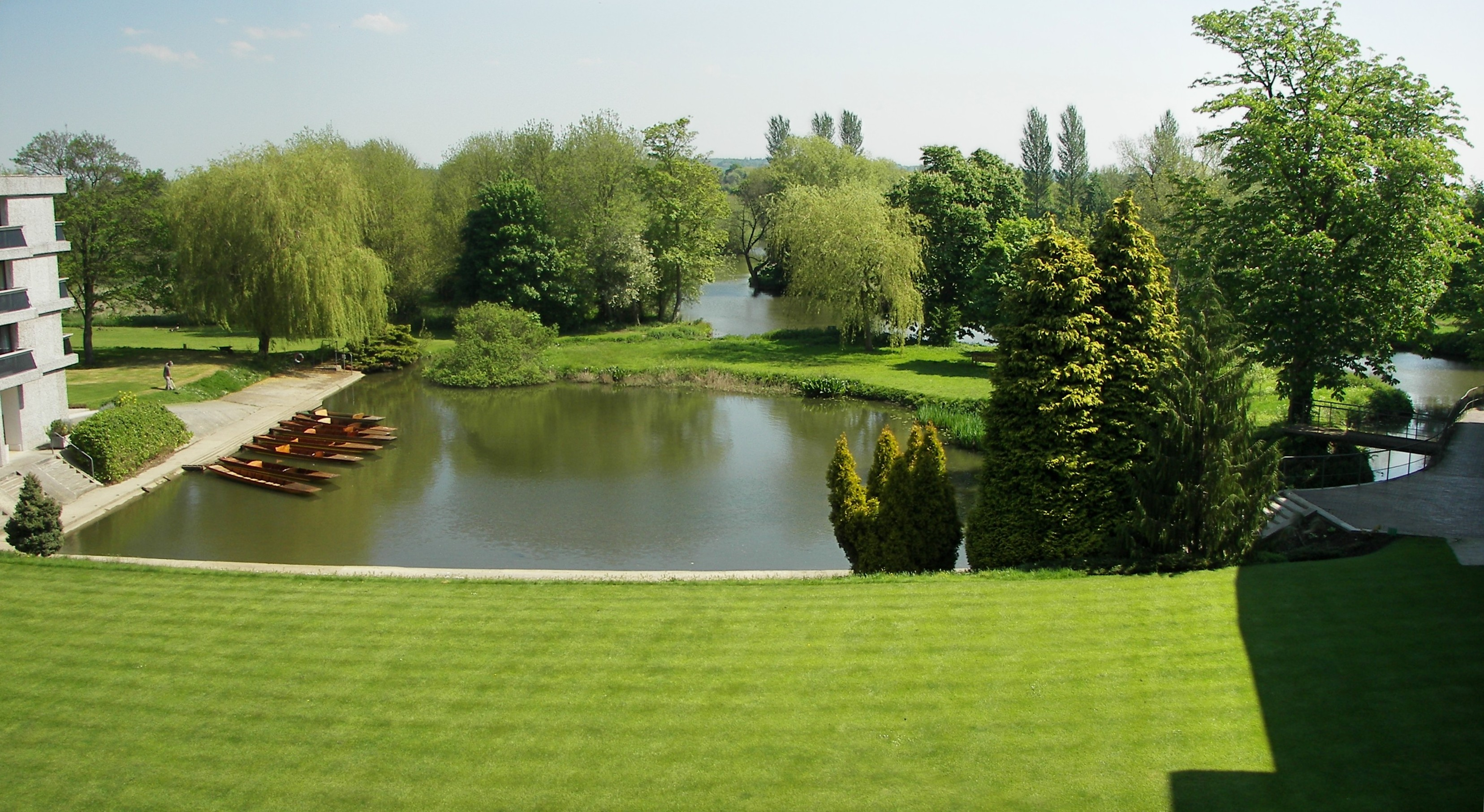 Photo of River Quad, punt harbour, island and the Cherwell River behind it, at Wolfson College Oxford. Photo taken from above, on the balcony of the upper common room. This image is a stitching of two separate photos, using Autostitch.